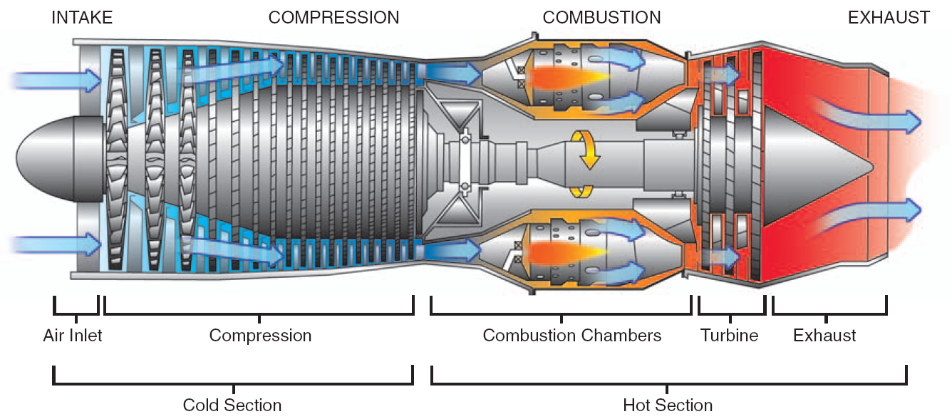 Figure 14-1. Basic components of a gas turbine engine.